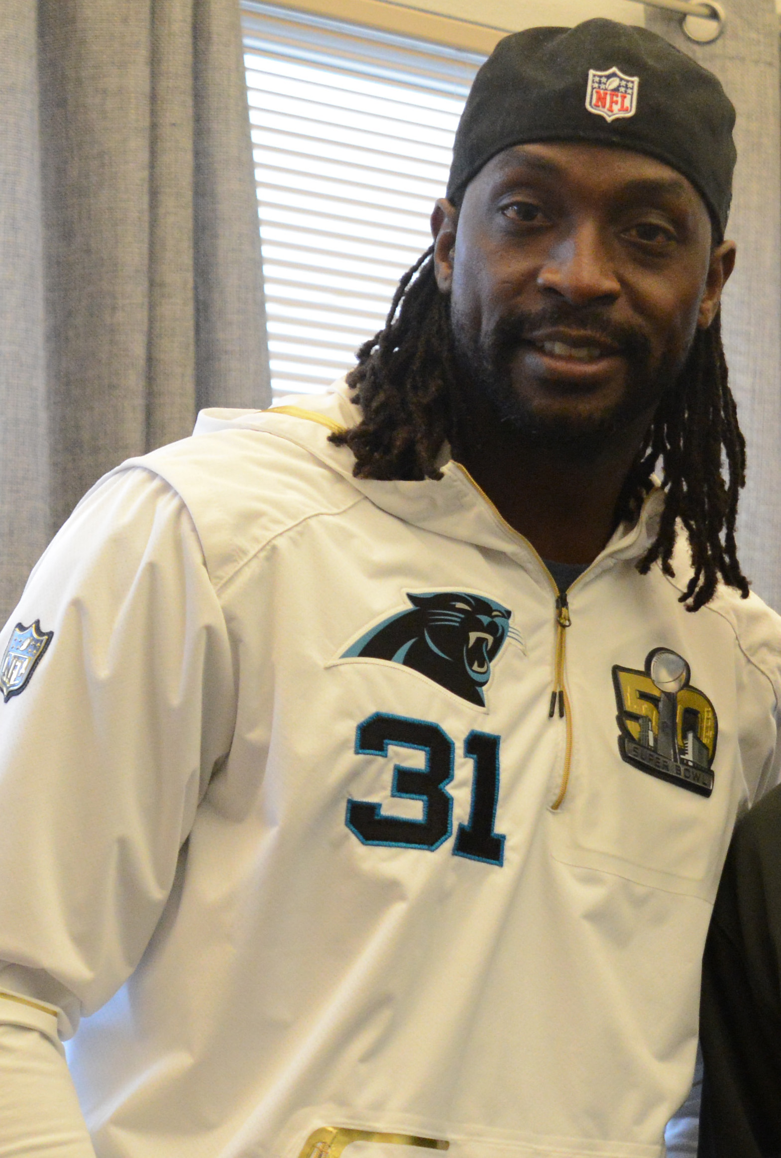 NFL cornerback Charles Tillman at the USO Spring 2016 Entertainment Tour held at Joint Base Elmendorf-Richardson